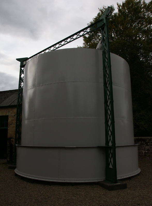 Biggar Gasworks Museum, South Lanarkshire, Scotland - gas holder